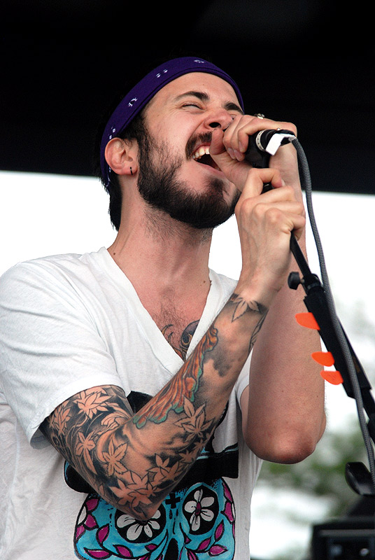 Matt Morris performing at the 2008 Bonnaroo Music Festival in Manchester, TN